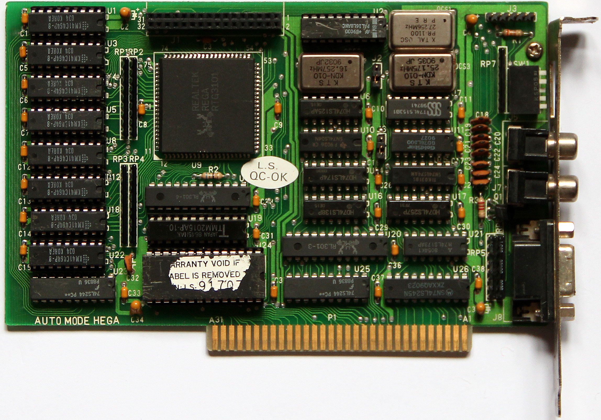 EGA graphic card with chipset RTG3101 from Realtek and 256kB memory.